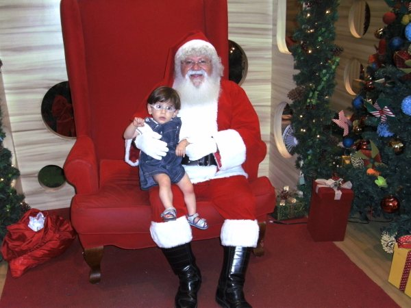 Santa Claus from Brazil with children